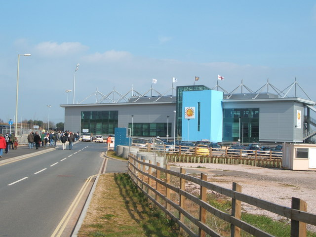 Exeter Chiefs' Stadium, Sandy Park, Exeter. Exeter chiefs Rugby club moved to this state-of-the-art stadium in October 2006. It has a current capacity of 6,000, with plans to expand to 10,000.